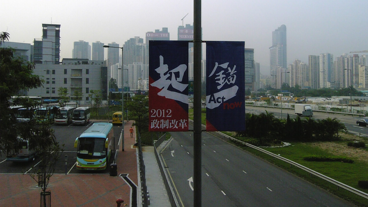 Street banner for the Package of Proposals for the Methods for Selecting the CE and for Forming the Legco in 2012 中文（香港）: 二零一二年行政長官及立法會產生辦法建議方案街燈宣傳海報——「起錨」